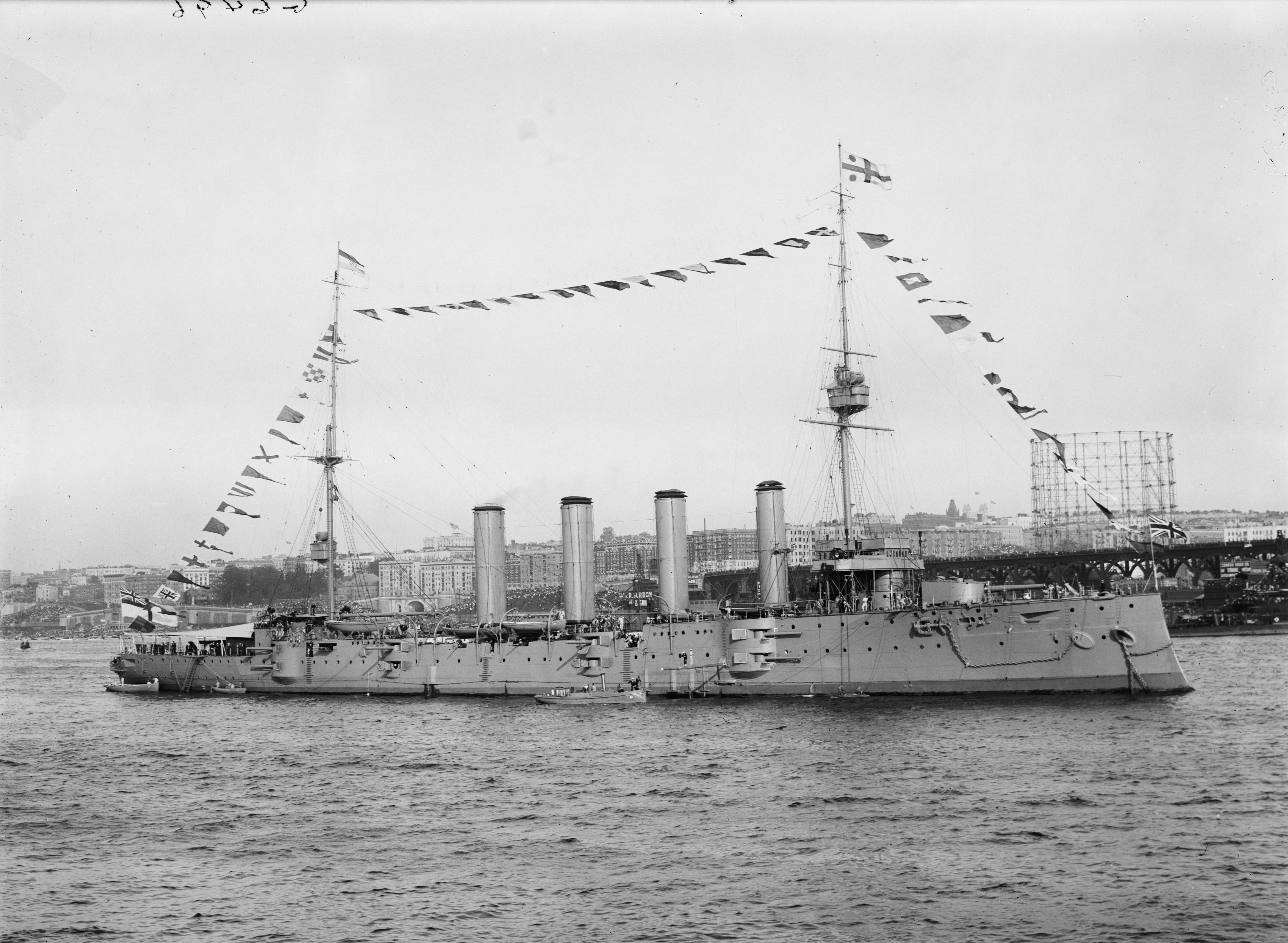 The British cruiser HMS Drake in the United States in 1909.